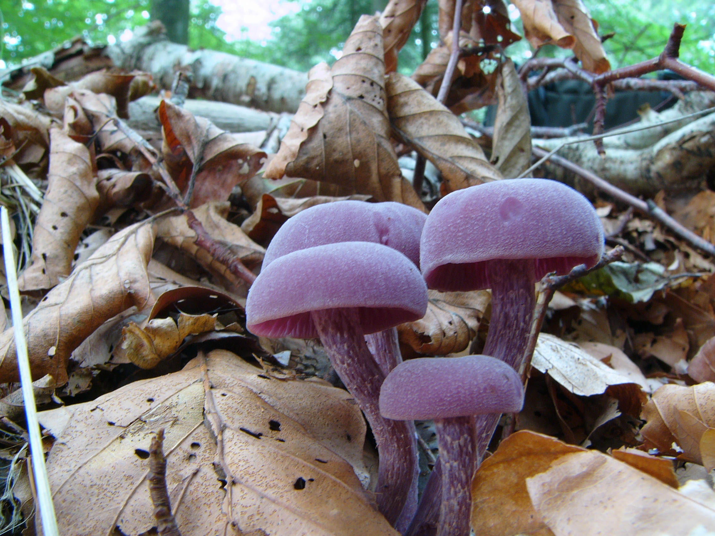 The making of this document was supported by the Community-Budget of Wikimedia Germany.